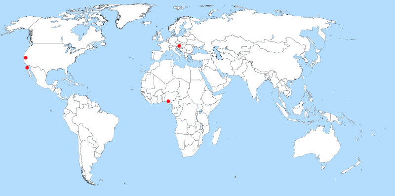 Map of centres of the Unarius new religious movement worldwide.